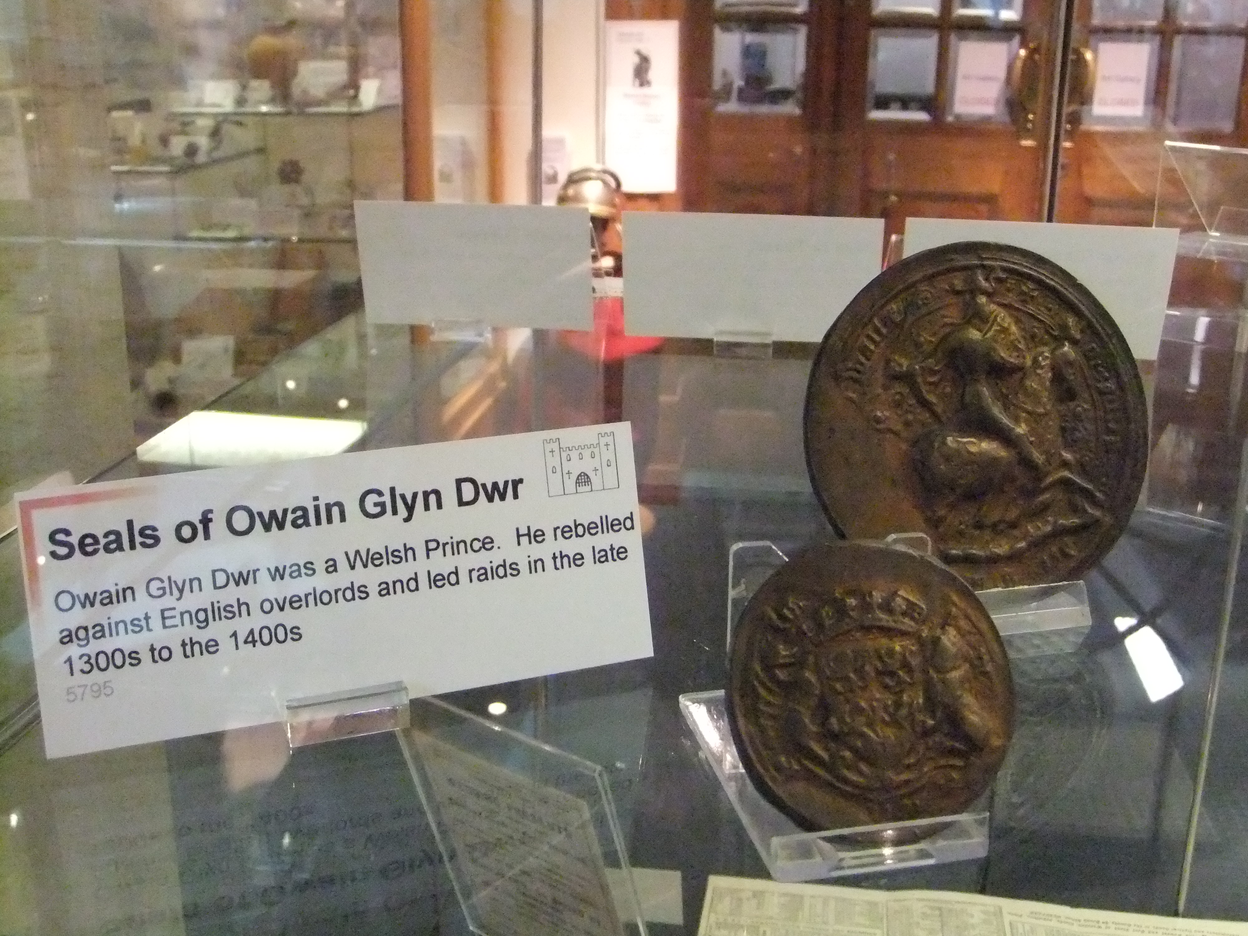 Seals of Owain Glyn Dwr. Photo taken at Hereford Museum and Art Gallery, England.